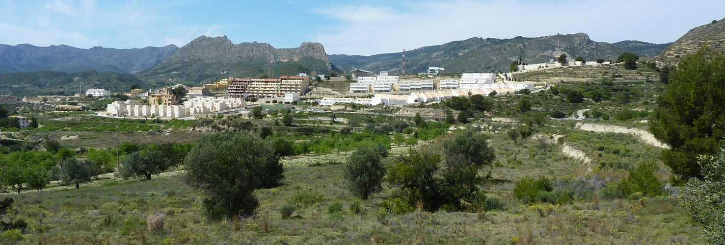 A view of the approach to Relleu from the Muscaret urbanisation.